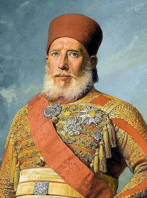 A Zoomed Version of Charles-Philippe Larivière's Original Portrait